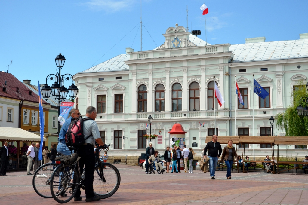 People of Sanok